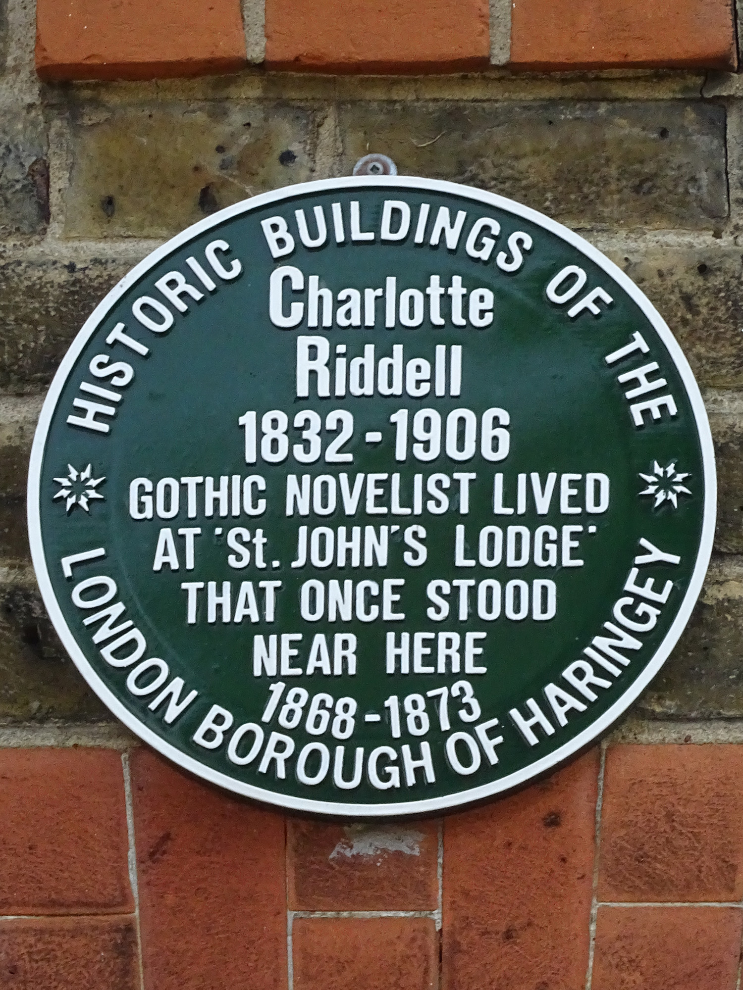 Green plaque erected by London Borough of Haringey on 08 March 2010 at St Ann's Hospital, Tottenham, London N15 3TH